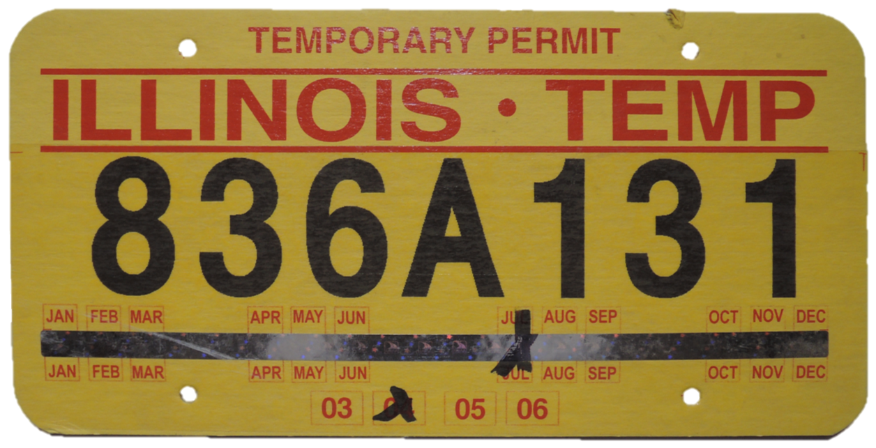 Illinois 2004 Temporary Registration Permit Illinois 2004 Temporary License Plates